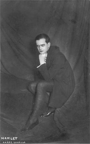 Aarre Linnala as Hamlet on the 20th anniversary of the Dawn scene.